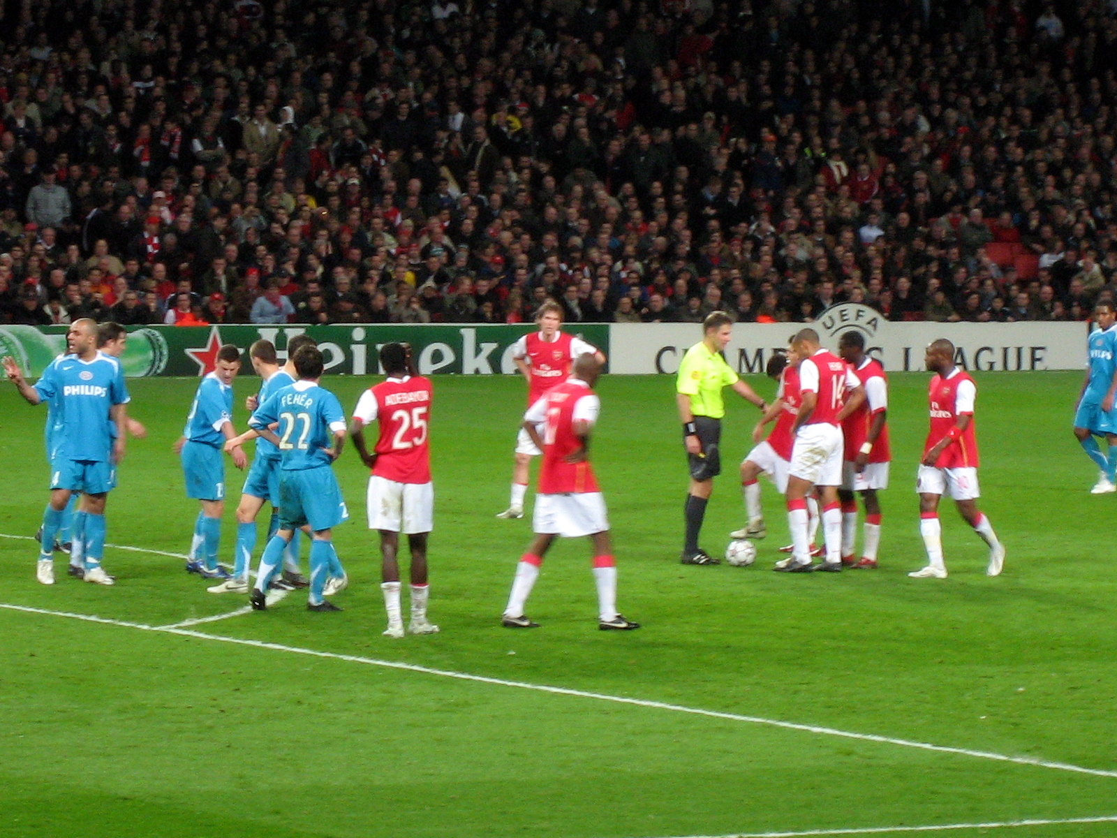 Champions League match. Arsenal FC 1 - 1 PSV. 07-mar-2007.